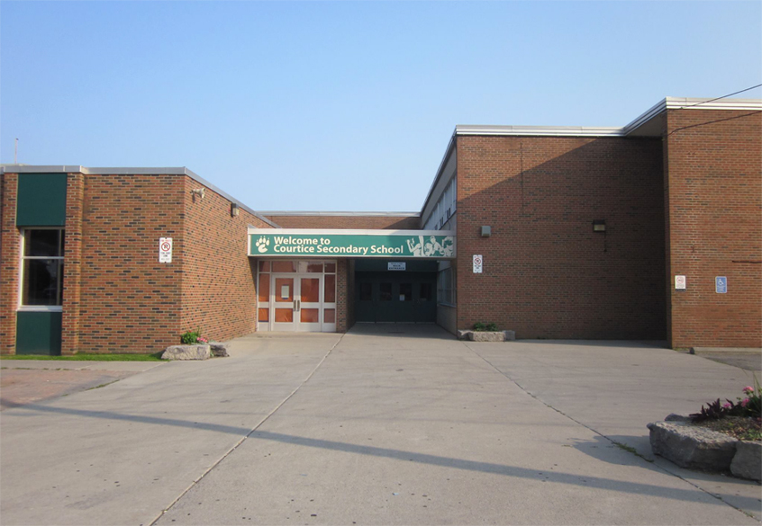 Courtice Secondary School, pictured in 2015.